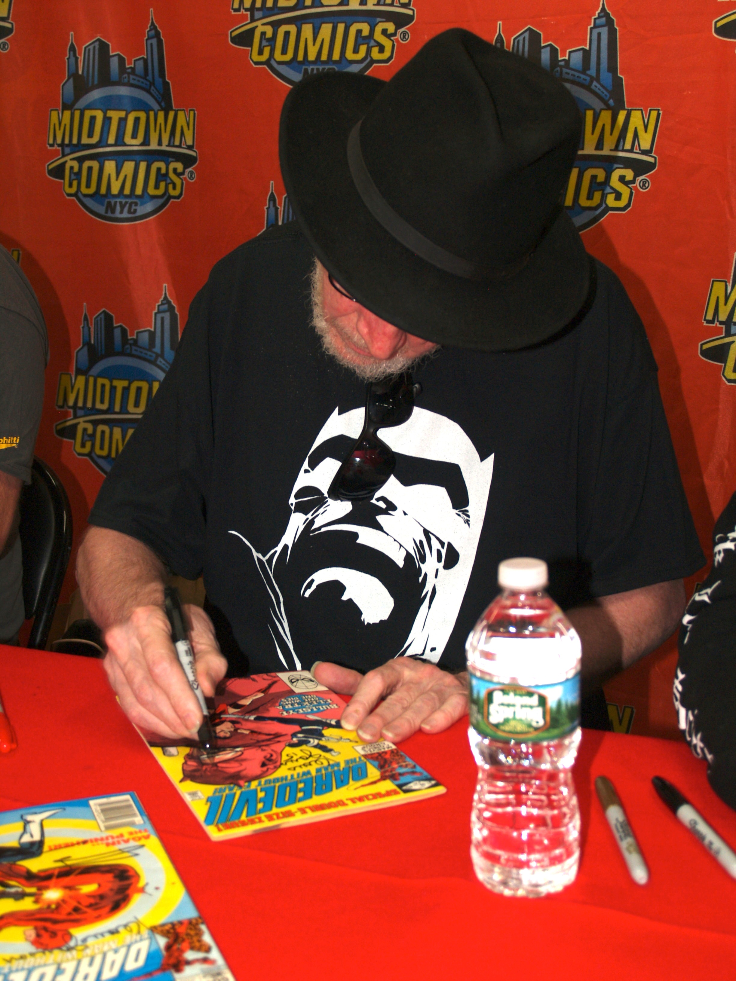 Comics writer/artist Frank Miller sigining copies of Daredevil Vol. 1 #181 (April 1982), during an appearance at Midtown Comics Downtown September 17, 2016, the third annual Batman Day, when DC Comics celebrates the creation of the character Batman. This photo was created by Luigi Novi. It is not in the public domain, and use of this file outside of the licensing terms is a copyright violation.